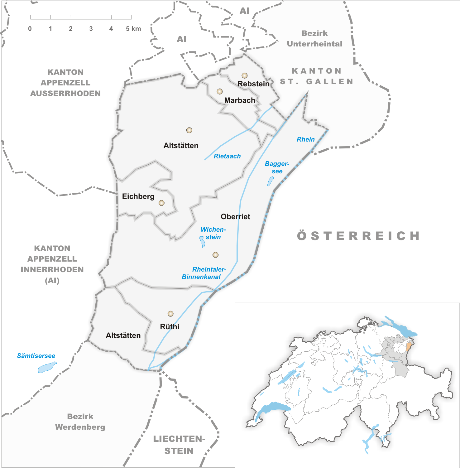 Municipalities in the district of Oberrheintal until 2002 Map drawn by Tschubby